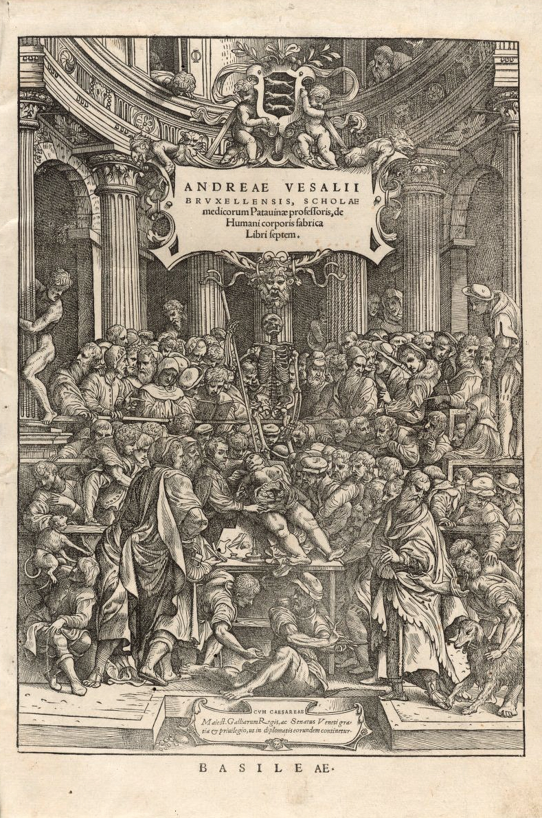 Frontispiece from De humani corporis fabrica, Basileae: 1543, by Andreas Vesalius (1514-1564). Typ 565.43.868, Houghton Library, Harvard University